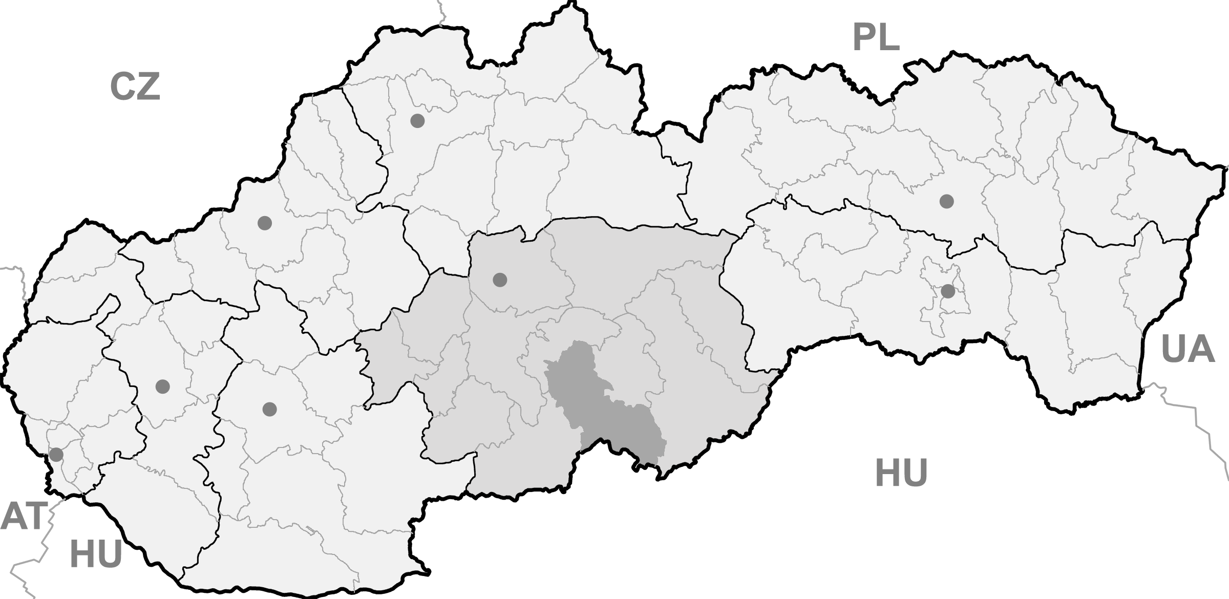 Map of Slovakia, Lucenec district and Banská Bystrica region highlighted